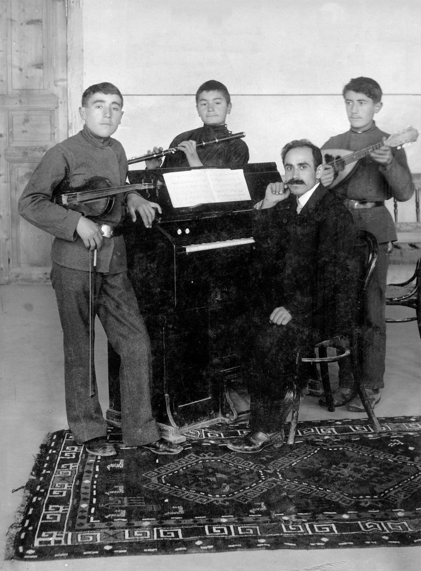 Daniel Ghazaryan with pupils, Kaghzvan, 1914